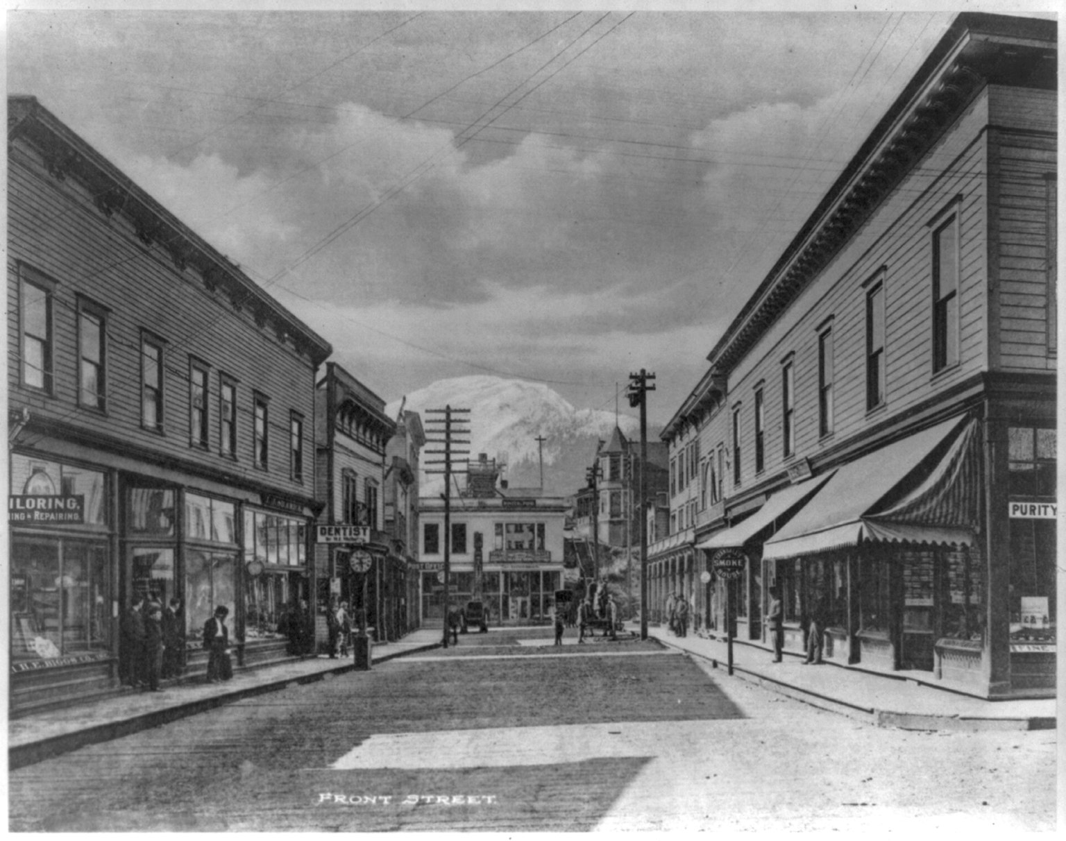 Title: Alaska. Juneau. Front Street. Abstract/medium: 1 photograph : print.